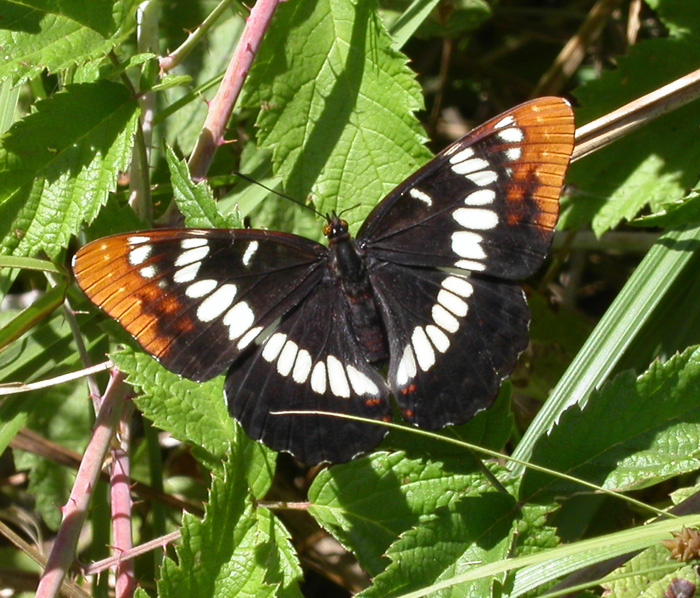 Lorquin's Admiral (Limenitis lorquini) butterfly — taken at Lodi Lake in Lodi, in the northern San Joaquin Valley, California.